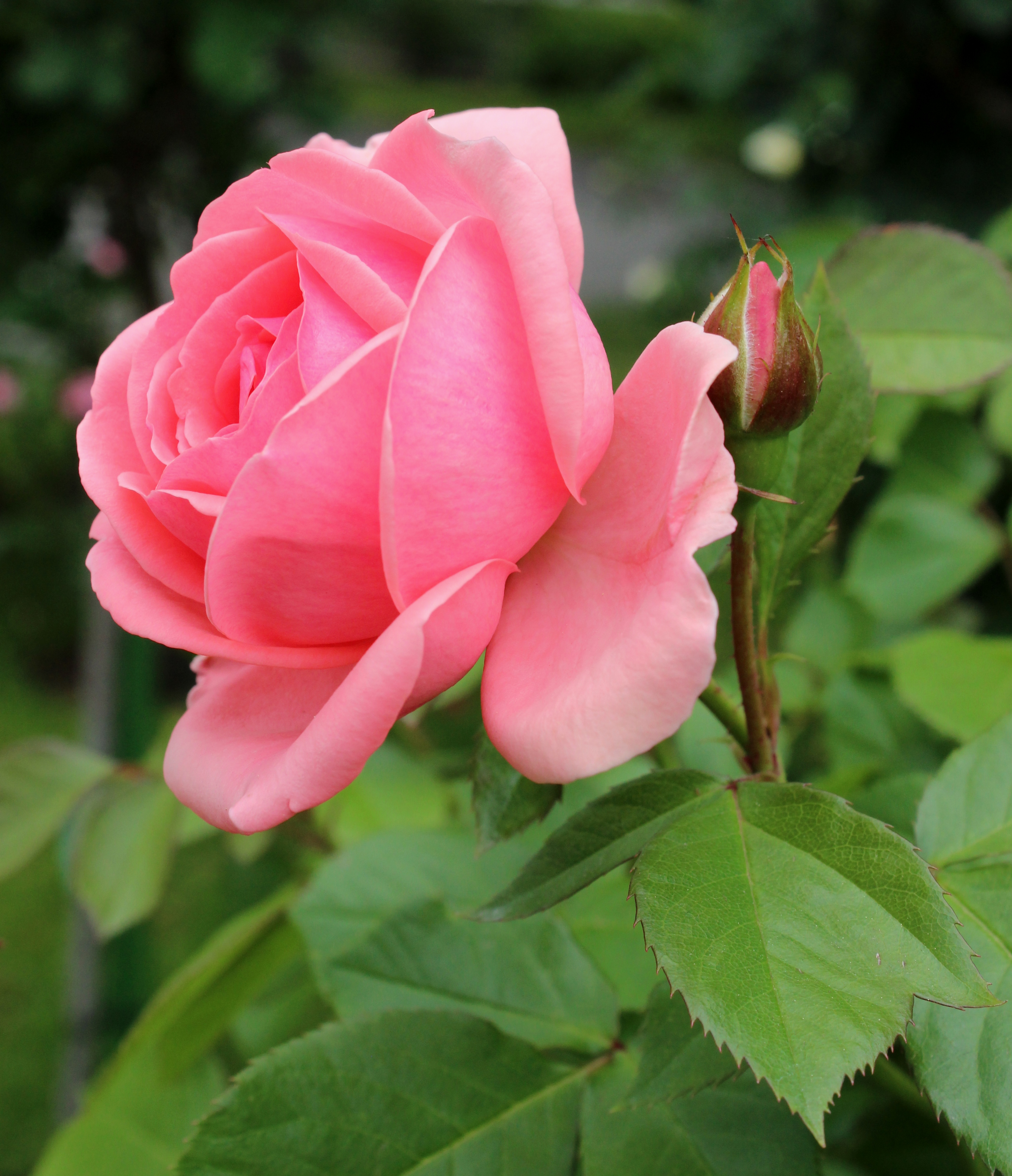 Rosa 'Johann Strauss' in the Volksgarten in Vienna, Austria. Identified by sign.